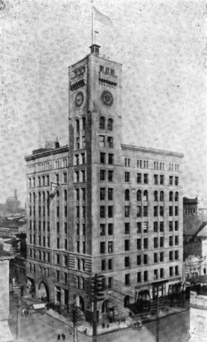 The Oregonian Building in 1900. This building was completed in 1892, and was demolished in 1950. The clock tower was between 194 and 196 feet (about 59 m) tall, and was the city's tallest structure at the time of its completion (and until at least 1911). (The newspaper moved to another building in 1948, and both the old and new buildings were/are called The Oregonian Building.)